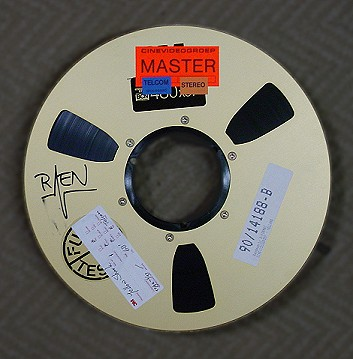 Open reel tape, Type B